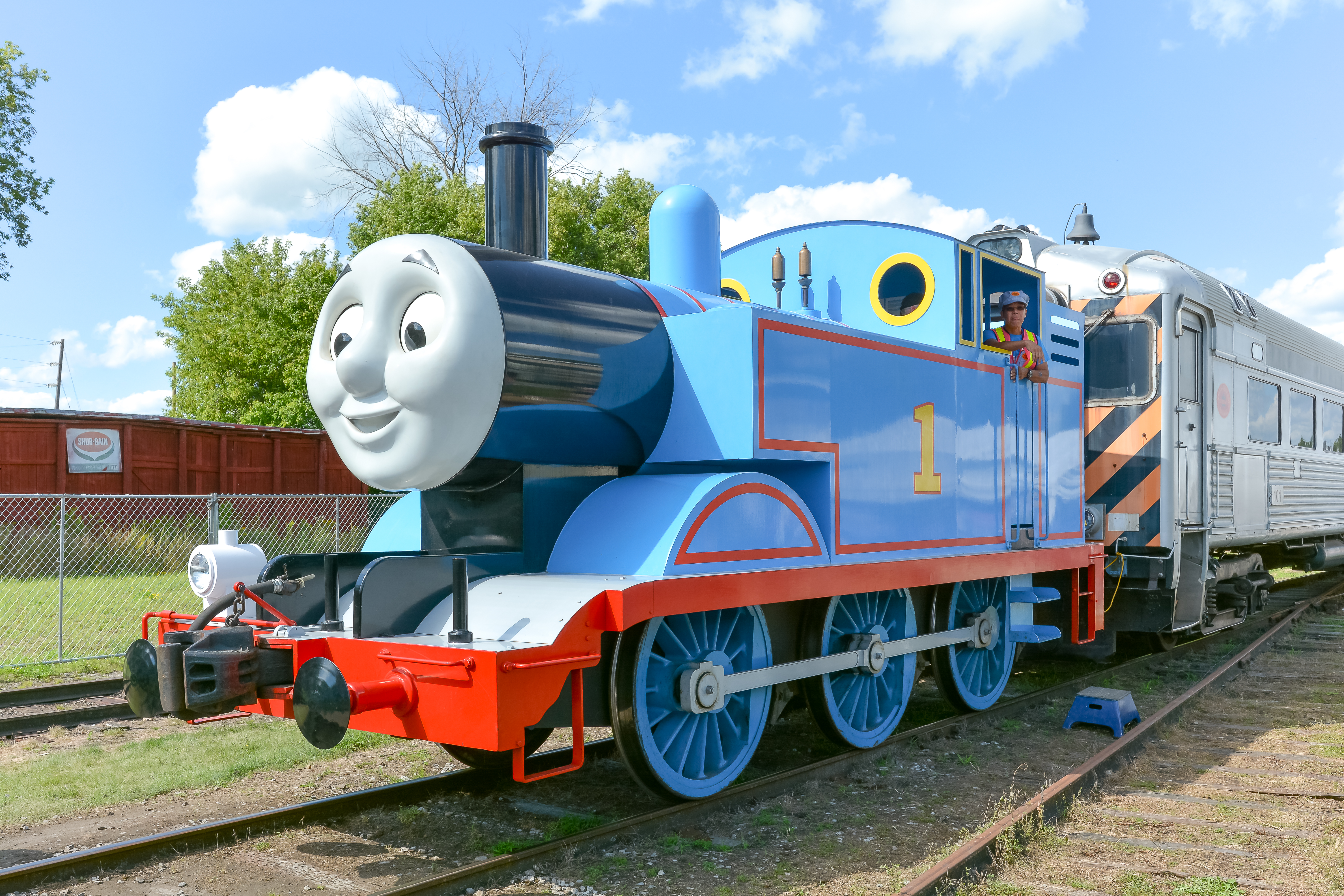 Its impressive how effective Thomas was duplicated from the show. As a guy with a photographic memory, with the exception of a couple of realistic additions, he looks exactly to scale.